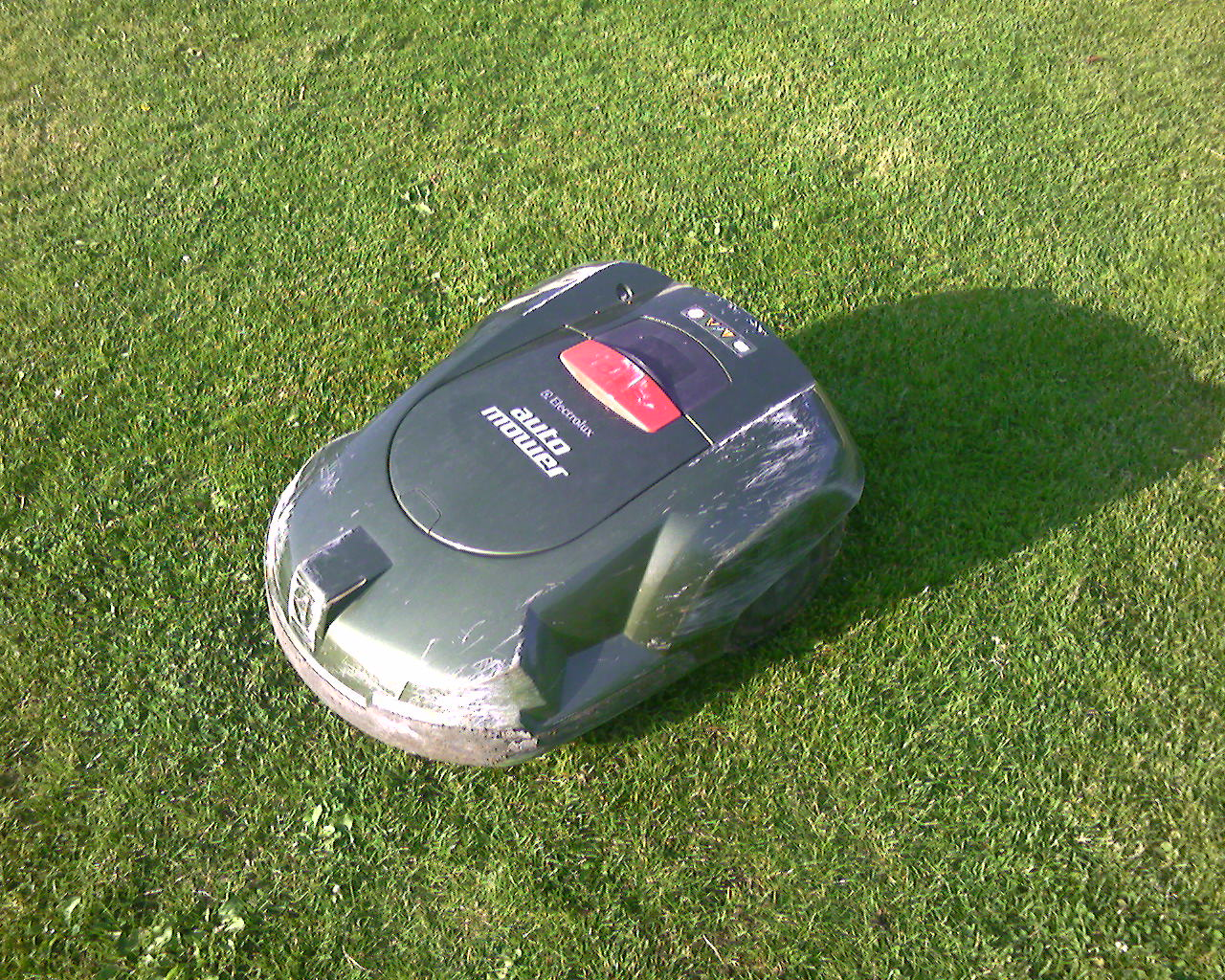 Electrolux automower standalone lawn mower